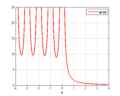 Plot of trigamma function psi1(x) of real argument x